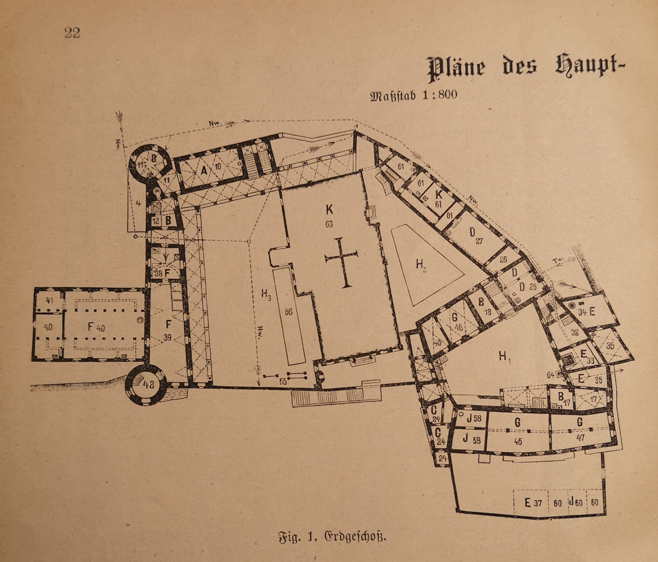 Floor plant of the San Michele Institute as of 1899, printed J. Wohlgemuth-Bozen